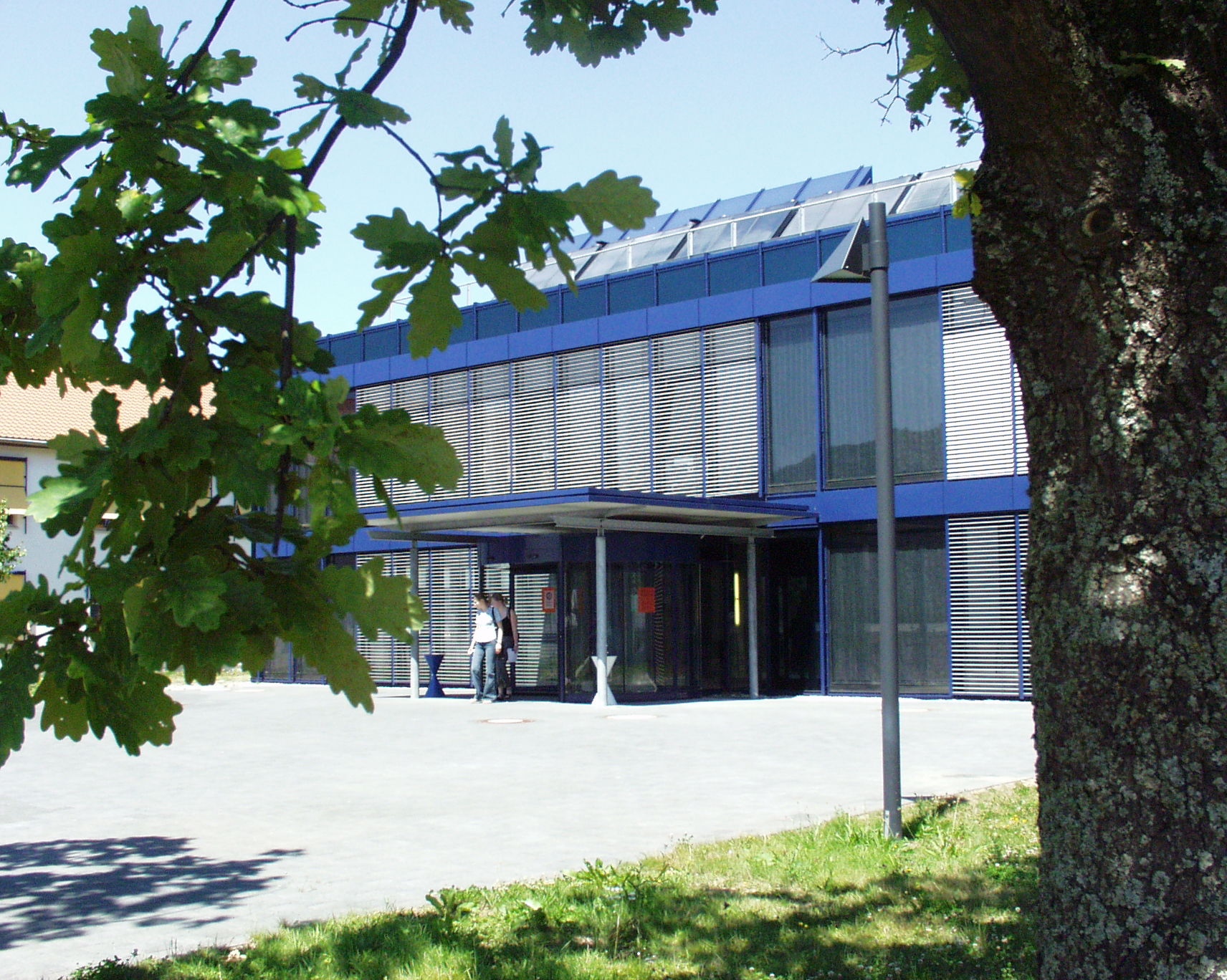 wikipedia.de